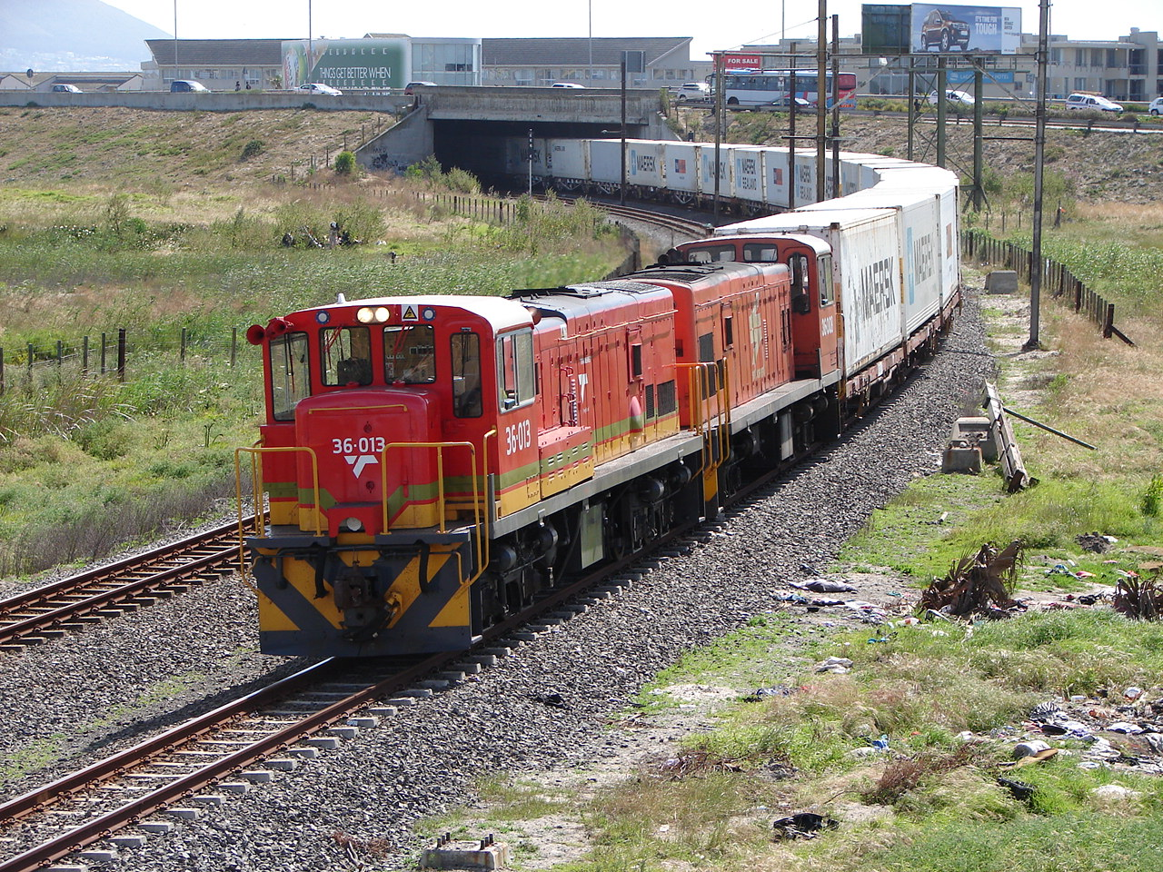 South African Class 36-000 36-013Builder's Number: GE-DL 40432Type: GE SG10BLocation: Rugby, Milnerton, Cape Town